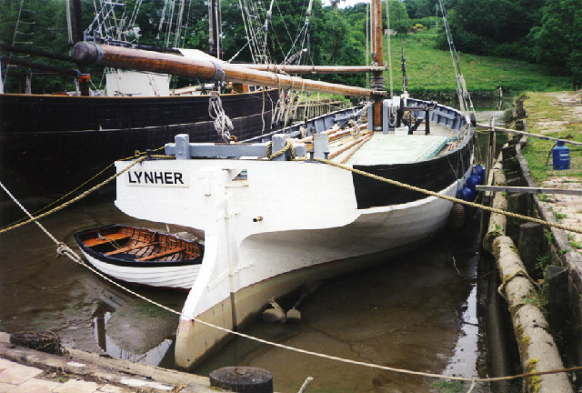 Morwellham: restored Tamar sailing barge 'Lynher' Lynher was built at Calstock in 1891 by James Goss and was restored in the 1990s. To the left of the 29-ton barge is the ketch 'Garlandstone'